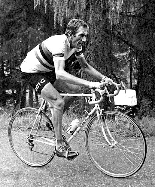 The Italian racing cyclist Vittorio Adorni wearing the world champion jersey during a stage of the Giro d'Italia. Italy, June 1969